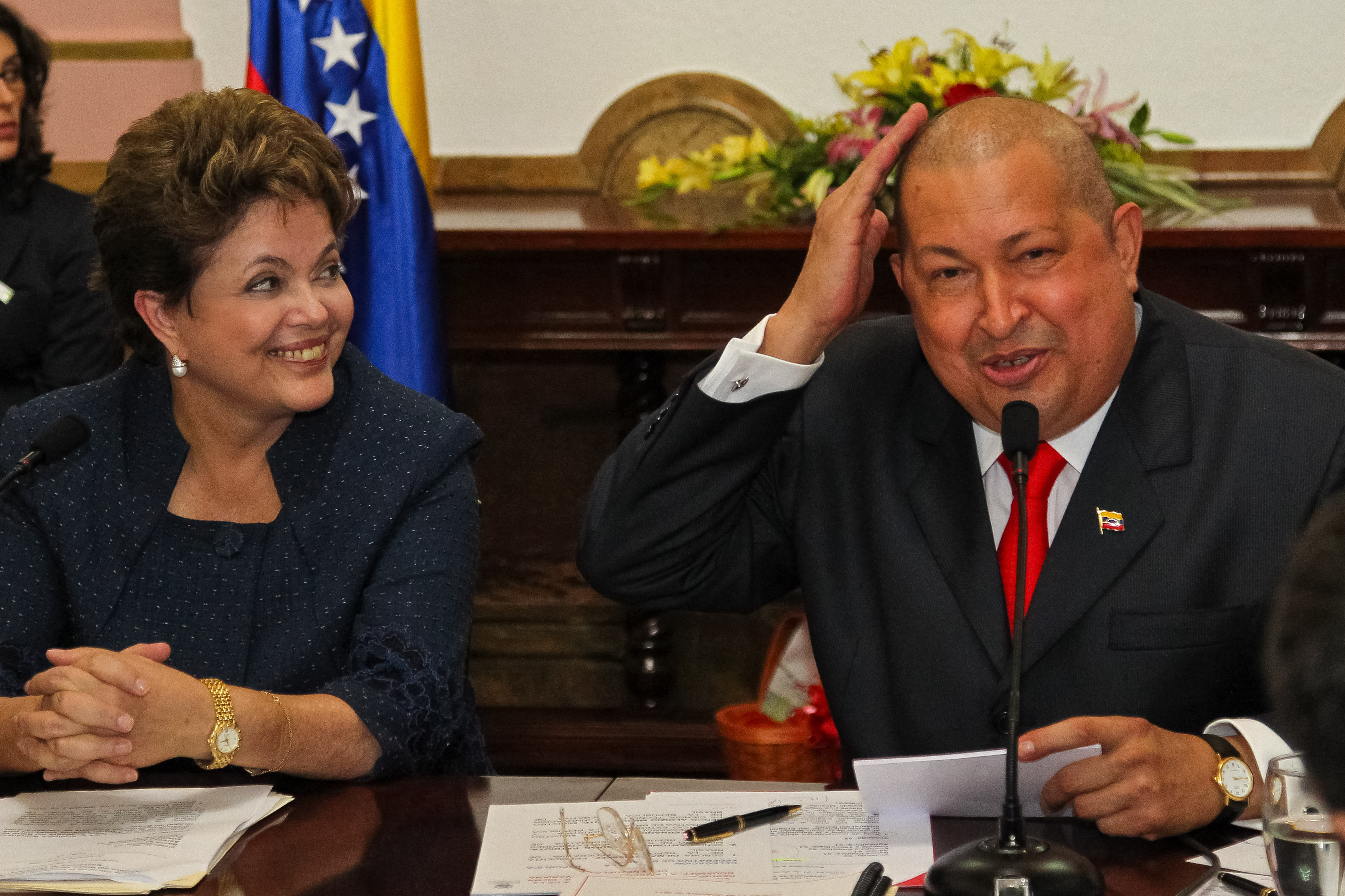 Presidents Dilma Rousseff and Hugo Chávez in a press statement at the Miraflores Palace in Caracas, Venezuela